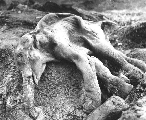 Ice mummy of the six-to-eight-month old wooly mammoth baby named Dima in situ near Kirgiljach River in northeast Siberia. Dated to 37,000 B.C.